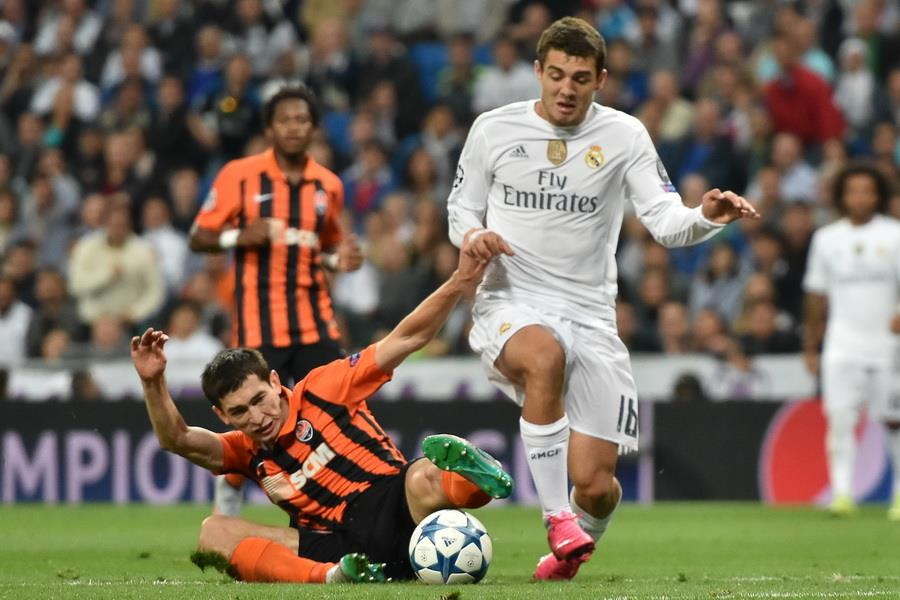 Mateo Kovačić playing for Real Madrid in a Champions League match against Shakhtar Donetsk